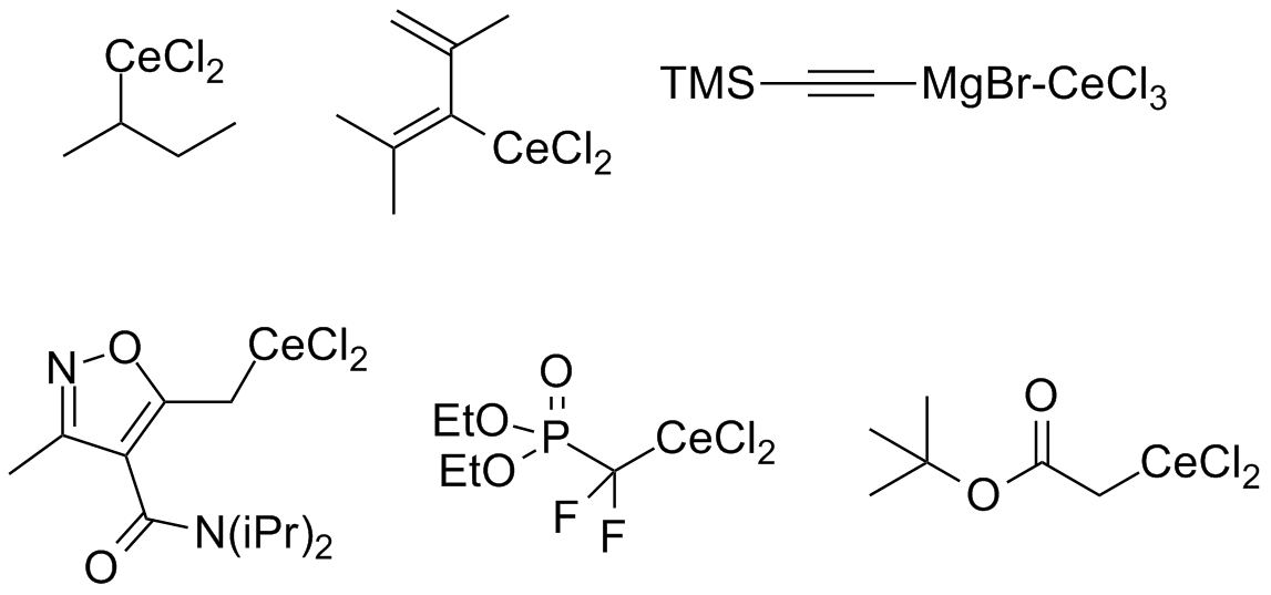 Examples of Organocerium reagents